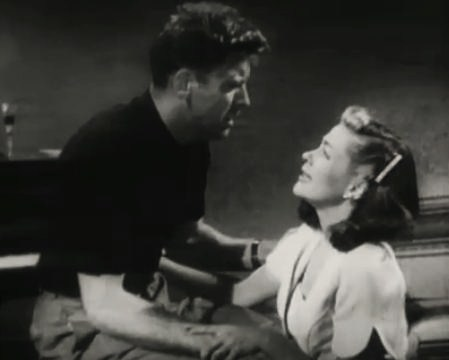 Burt Lancaster & Yvonne De Carlo in Criss Cross - trailer (cropped screenshot)